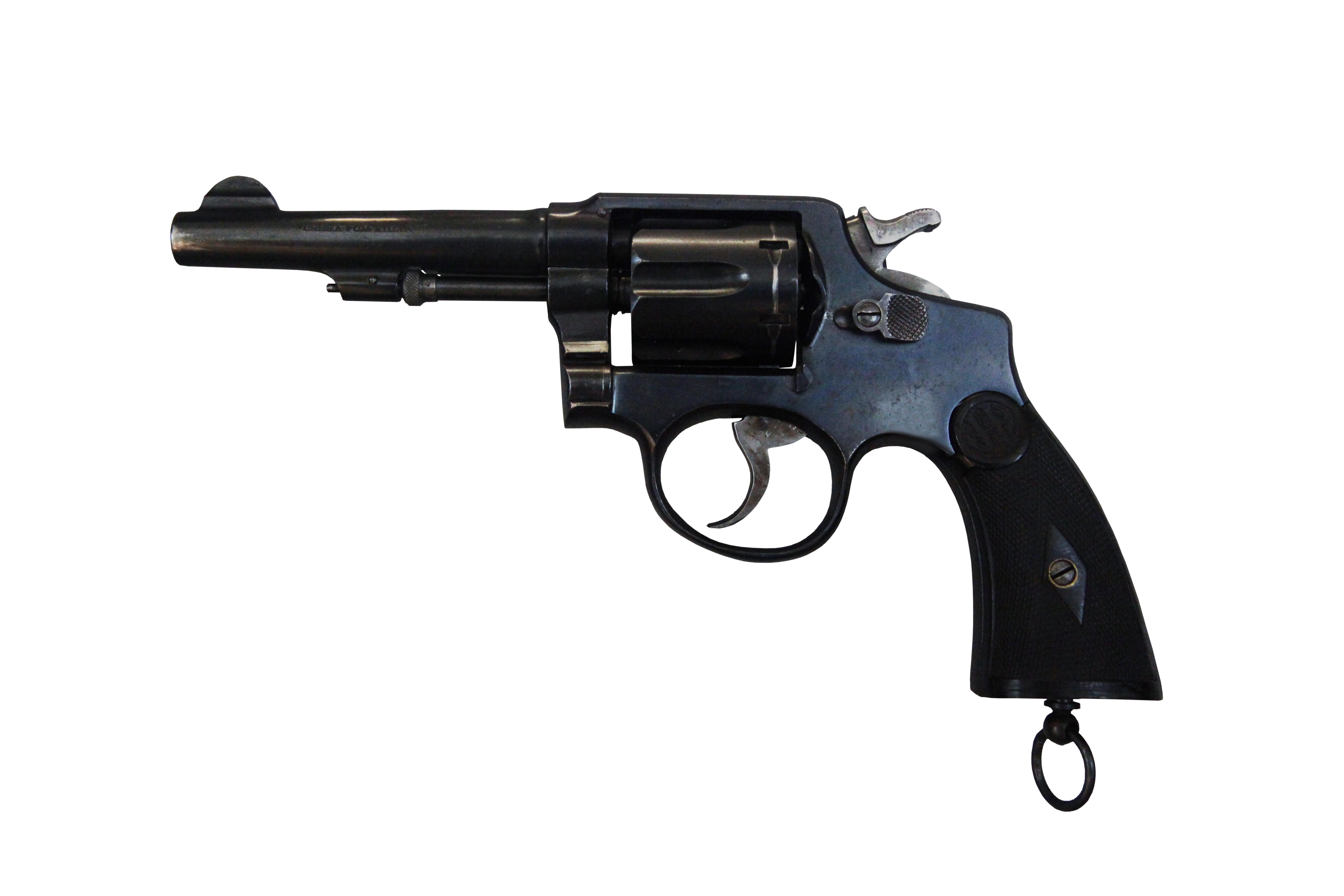 So-called "92 espagnol" 8mm revolver ("Spanish 92"), a clone of the Smith & Wesson Model 10 made in Spain for the French Army, 0.88 kg. On display at Musée de l'Armée (Inv. 2004.25.1)